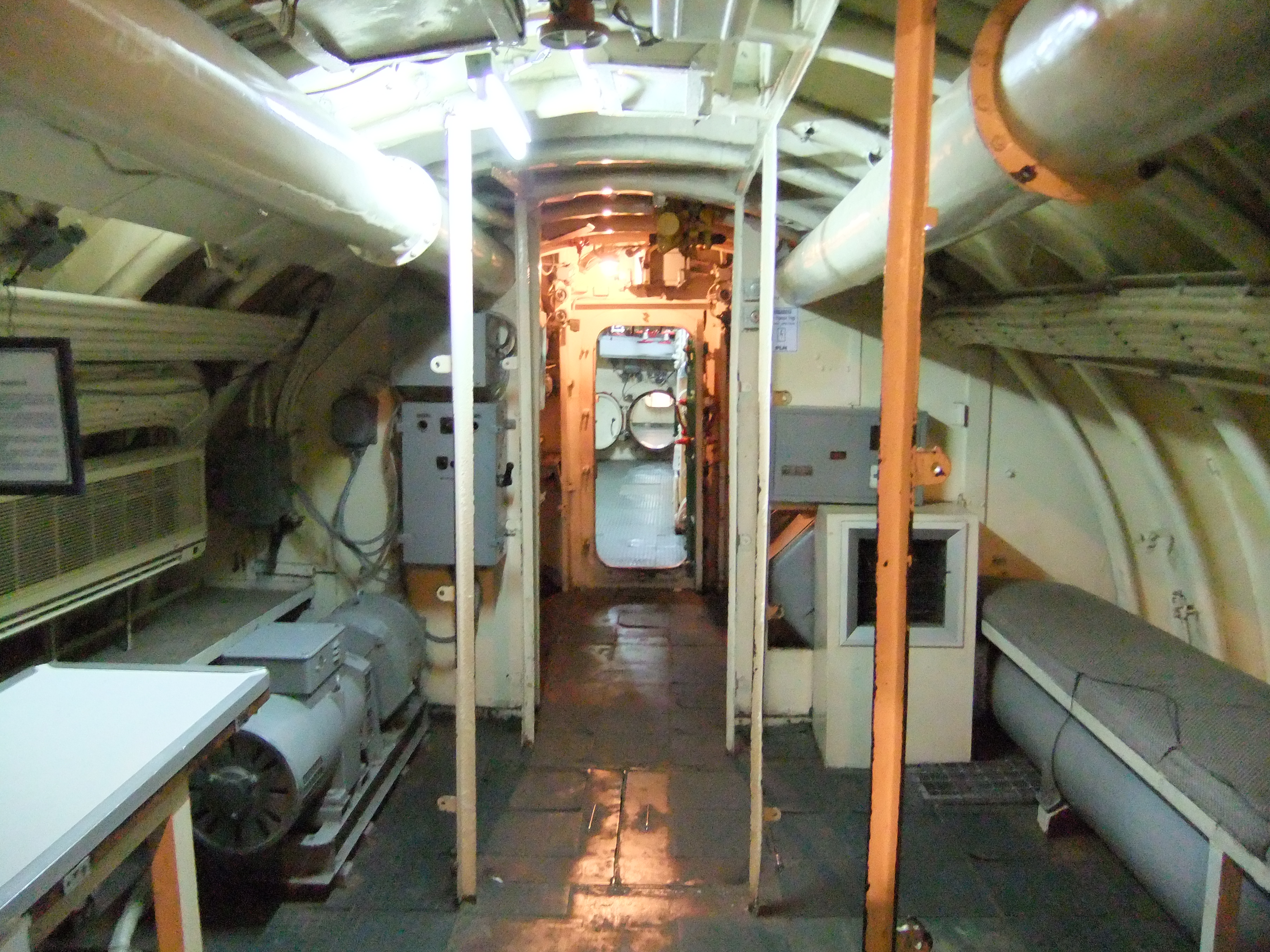 Submarine Monument (KRI Pasopati), Surabaya, Indonesia